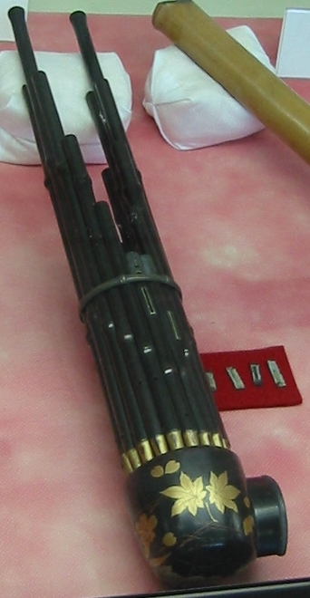 A shō in Gifu Castle Museum